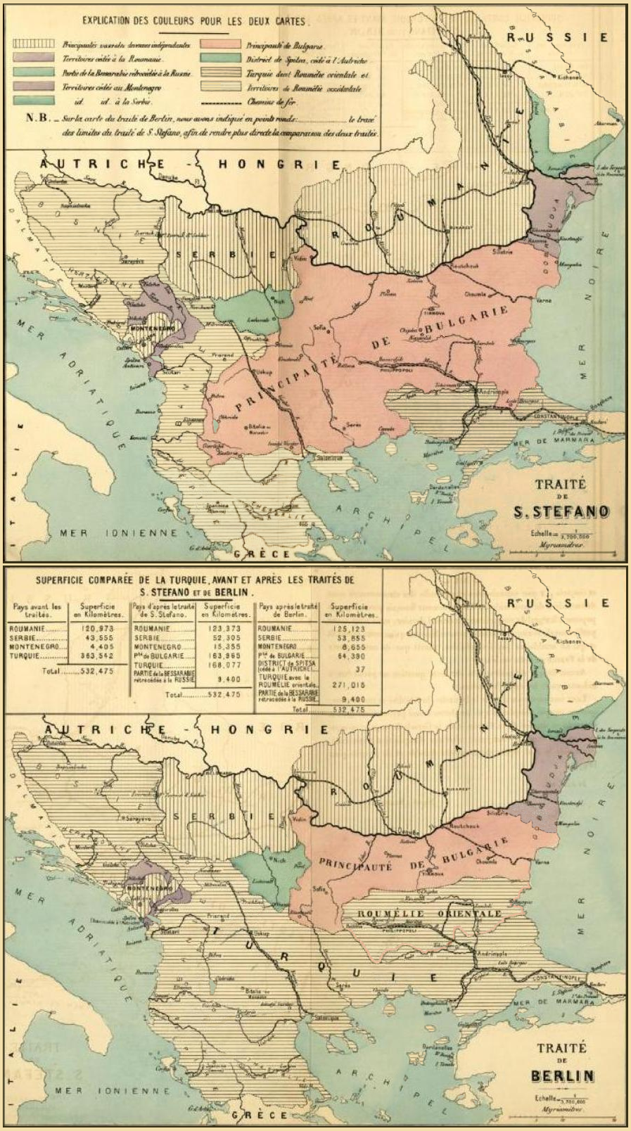 French map (1880) of the Balkans, comparating the treaties of San Stefano and Berlin, 1878